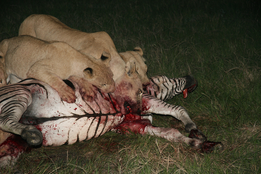 Lions killing a zebra